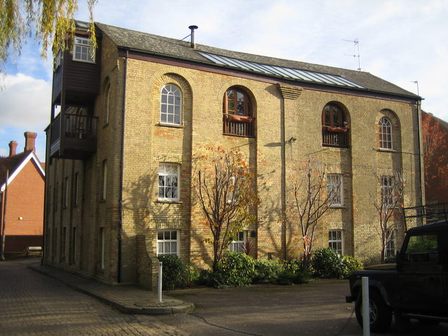 Biggleswade: Ivel Mill There has been a watermill on this site on the River Ivel for over a thousand years, but after a fire in 1945 the building was used as warehouse, and then converted into flats in 1982.